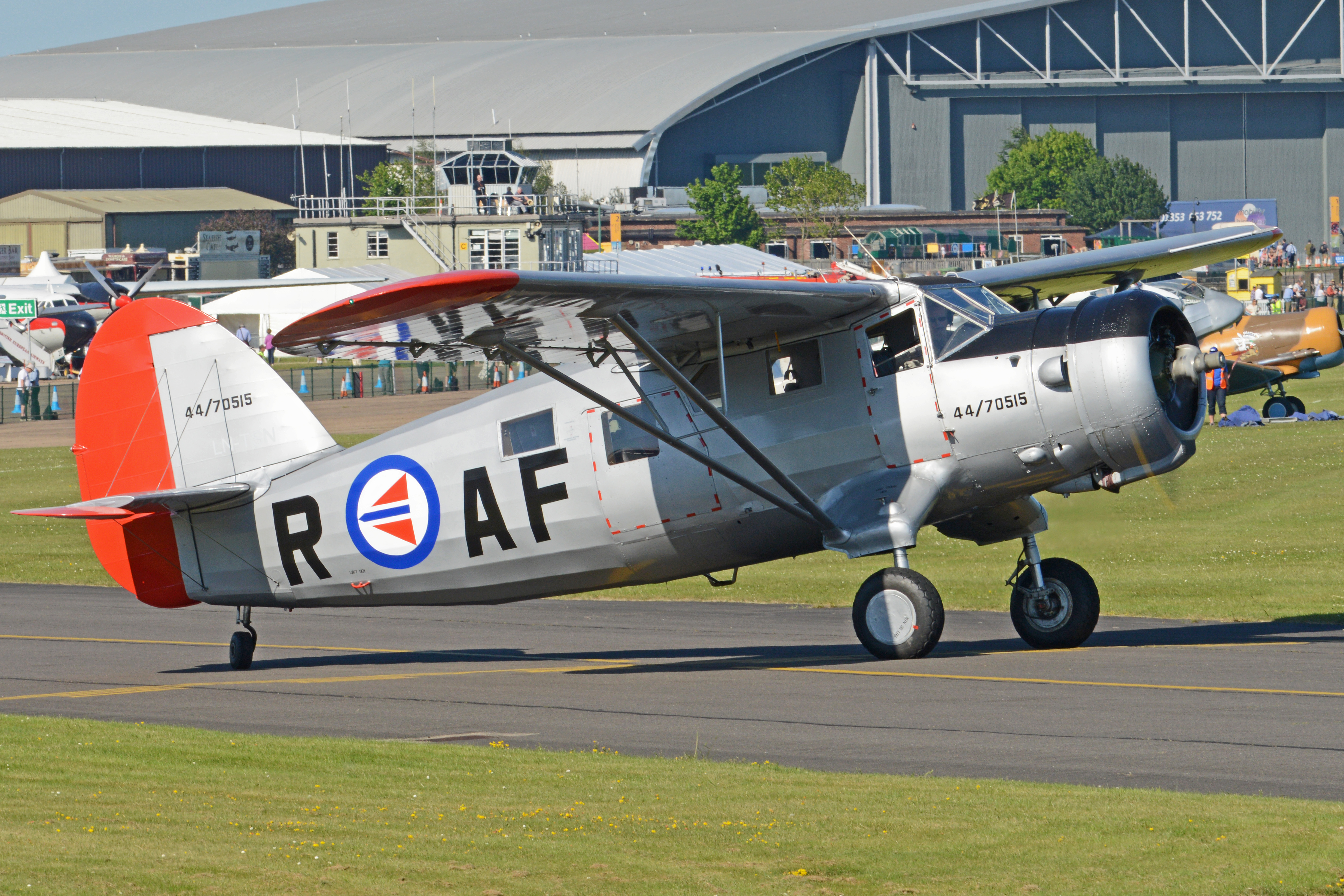 c/n 780. Built 1944 as a UC-64A and allocated the US military serial 44-70515. Delivered to the UK and flew briefly at the Norwegian training base at Winkleigh, Devon in May 1945 until ferried to Norway and joined the Royal Norwegian Air Force. It flew with them, on wheels and floats, until sold off in 1959. Now operated by the Norwegian Spitfire Foundation and based at Bodo, Norway, she is seen on her first UK visit since it departed in May 1945. Duxford Airfield, Cambridgeshire, UK. 26th May 2017